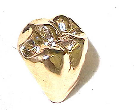 Zahnkrone, Gold - dental crown - denture